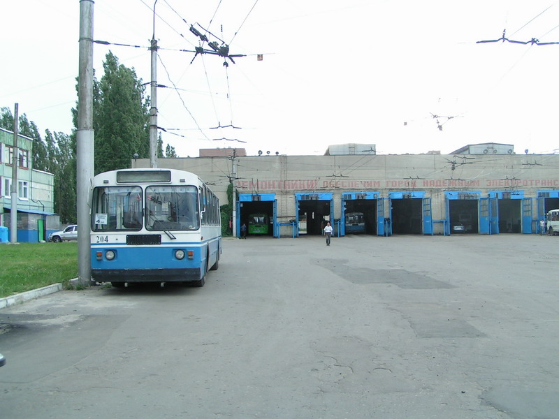 Second trolleybus depot of Voronezh as in 2006